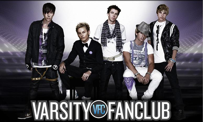 The Official Varsity Fanclub!